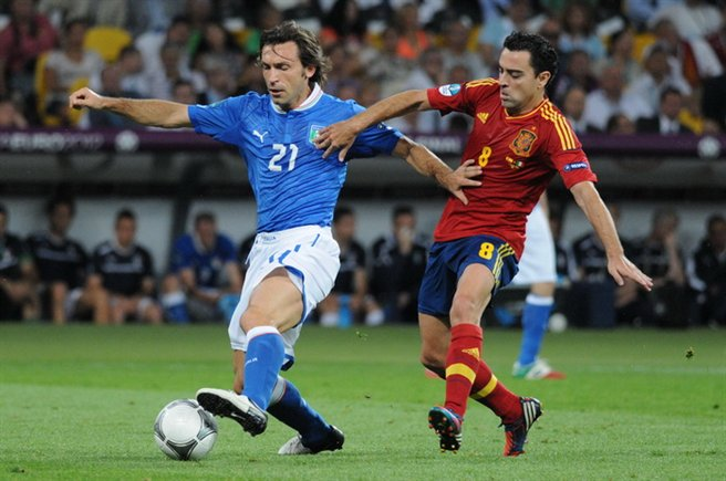 Andrea Pirlo and Xavi Hernández at Euro 2012 final Spain-Italy